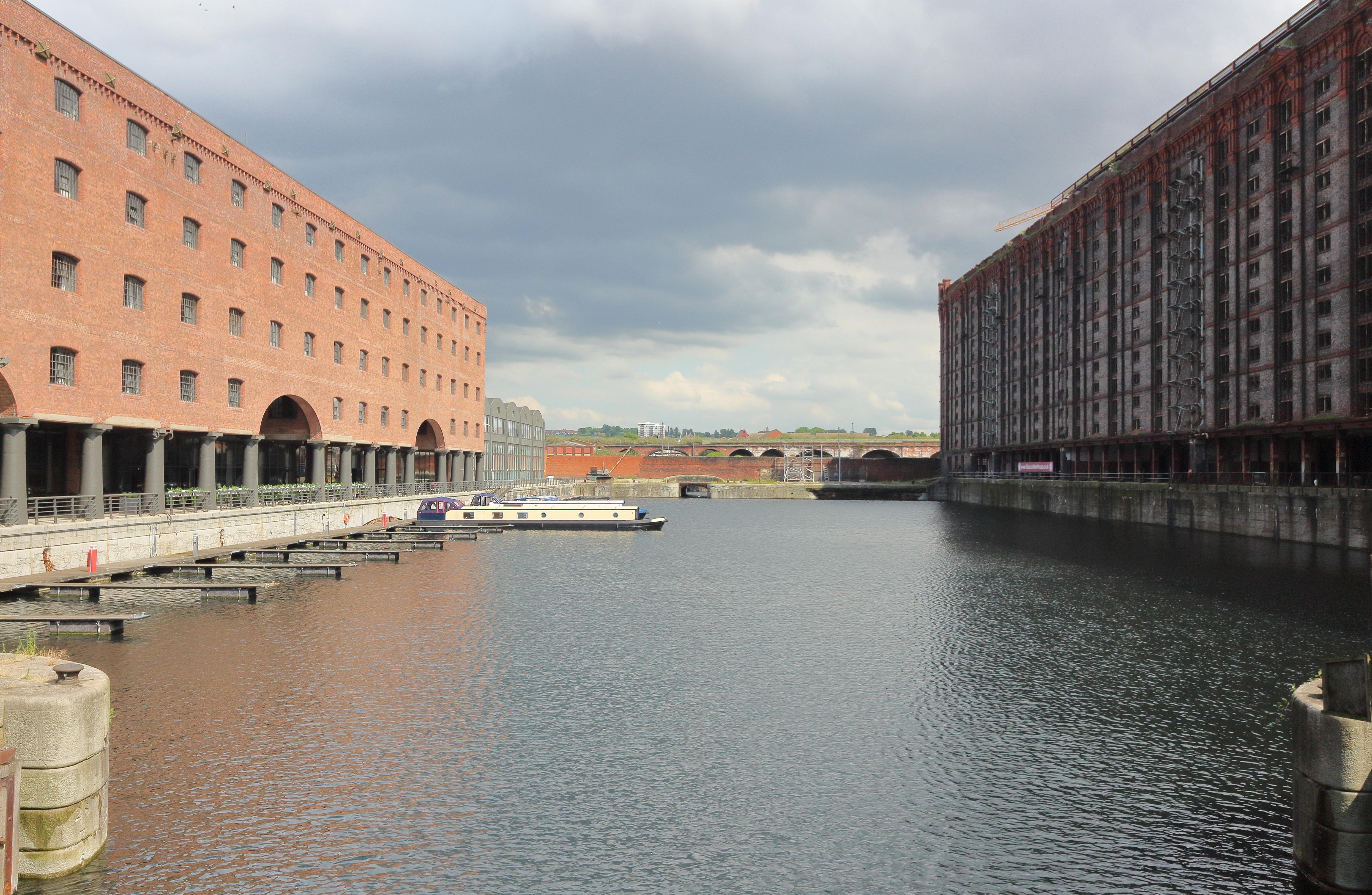 View east across Stanley Dock from the bascule bridge. At the far end, a tunnel passes under Great Howard Street to give access to the Leeds and Liverpool Canal. Titanic Hotel at left and tobacco warehouse to the right.